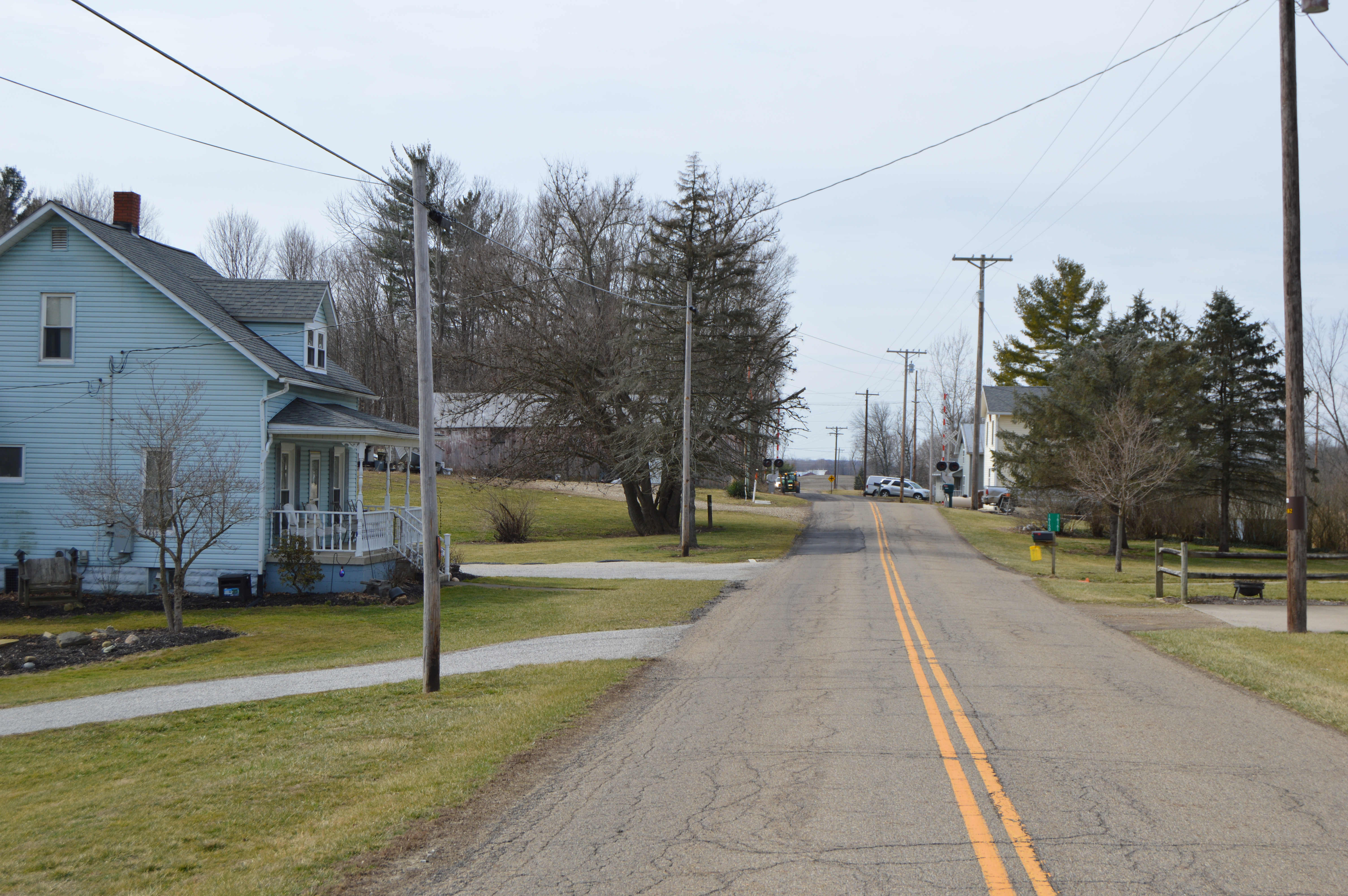 Houses on Sycamore Road just east of the railroad crossing in Hunt, Ohio, United States.